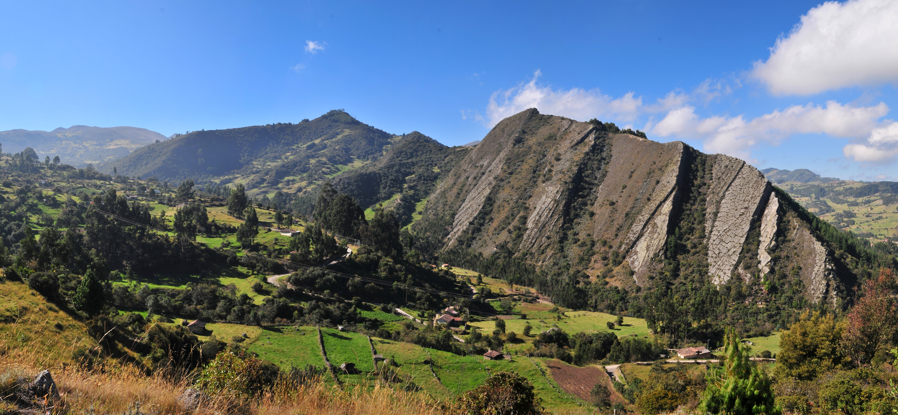 Panorama of Peña de Ortí, Páramo de Ocetá, Boyacá, Colombia Photo credits: Álvaro Siabatto (Bogotá) & José Próspero Hurtado Caro (Monguí)